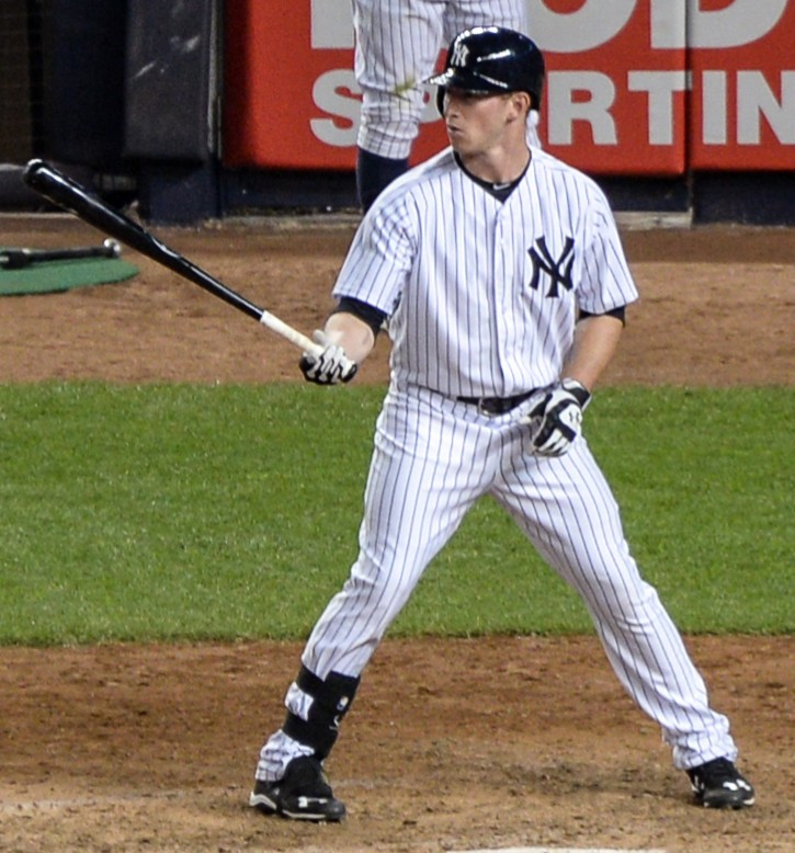 Slade Heathcott